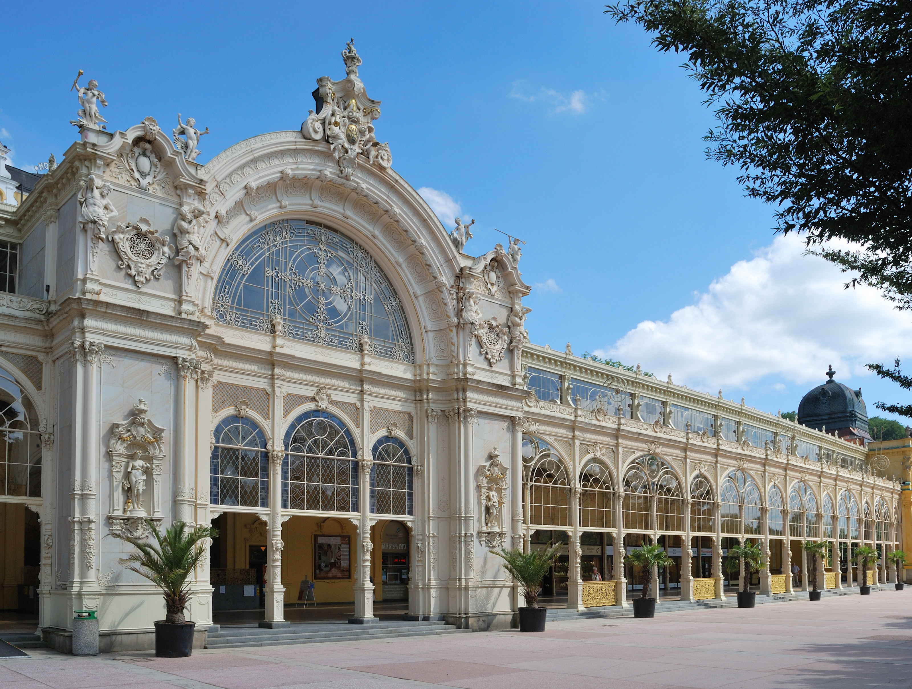 The entrance to the Main or Cast-iron Colonnade in Mariánské Lázně in the Czech Republic.